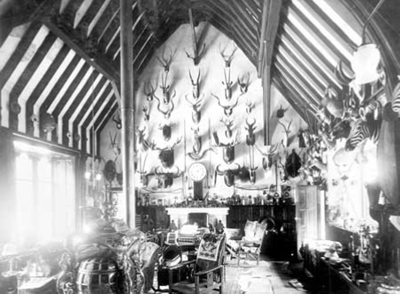 The Abbey, Sutton Courtenay, Oxfordshire, England